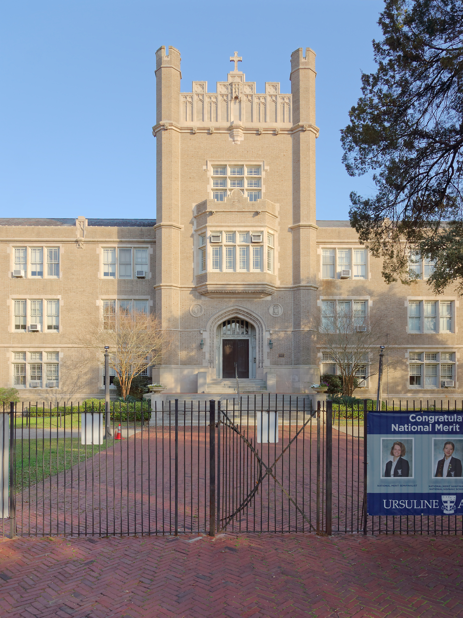 Ursuline Academy, New Orleans, LA, U.S.A. main entrance, as seen from State St. February 9, 2019